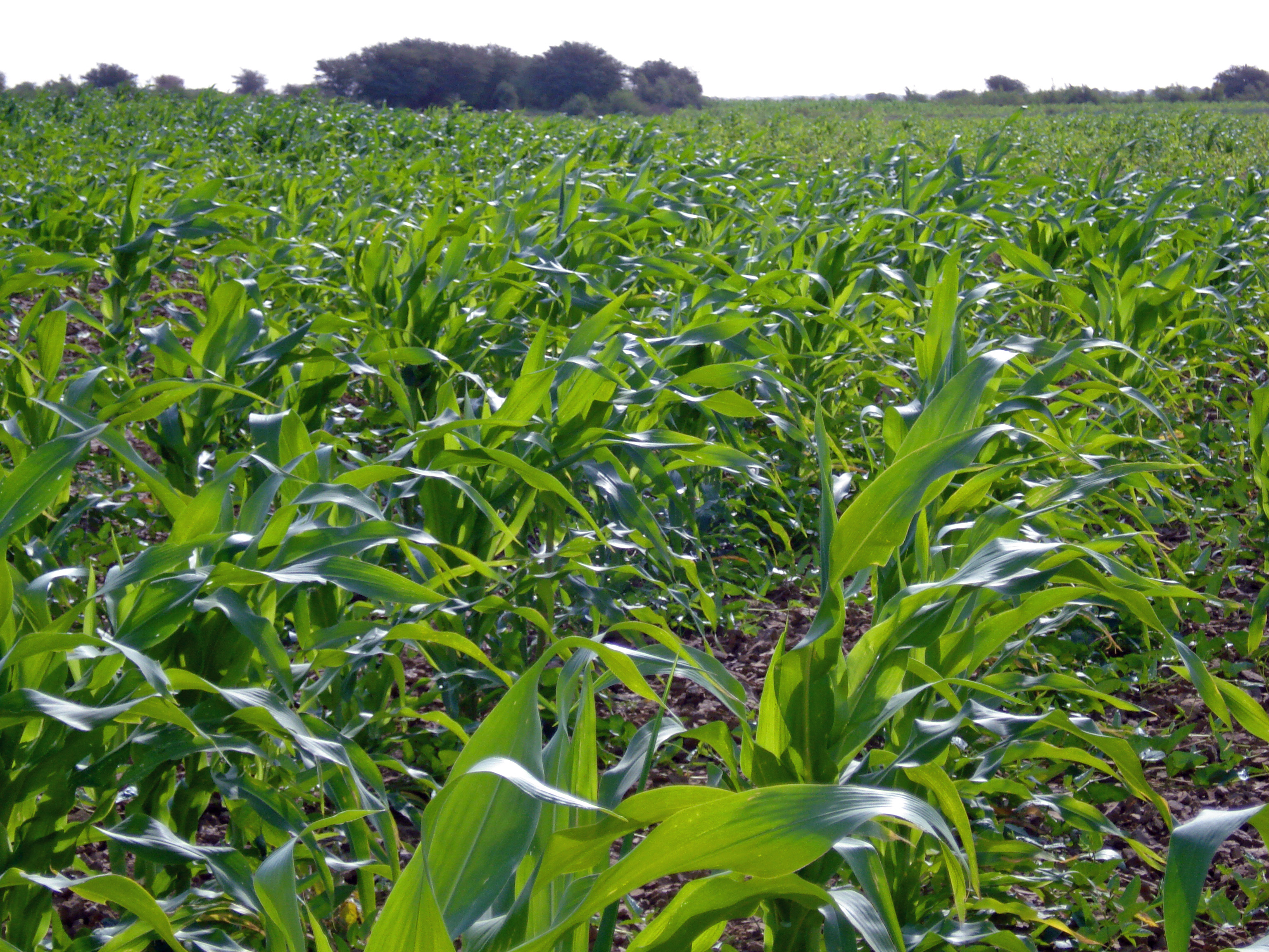 text